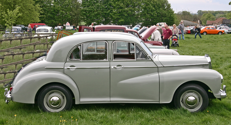 Wolseley 4/50. Walnut and leather inside gave the Wolseley 4/50 an upmarket feel over its Morris Oxford MO sibling.